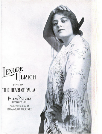 "The American Club Woman Magazine"